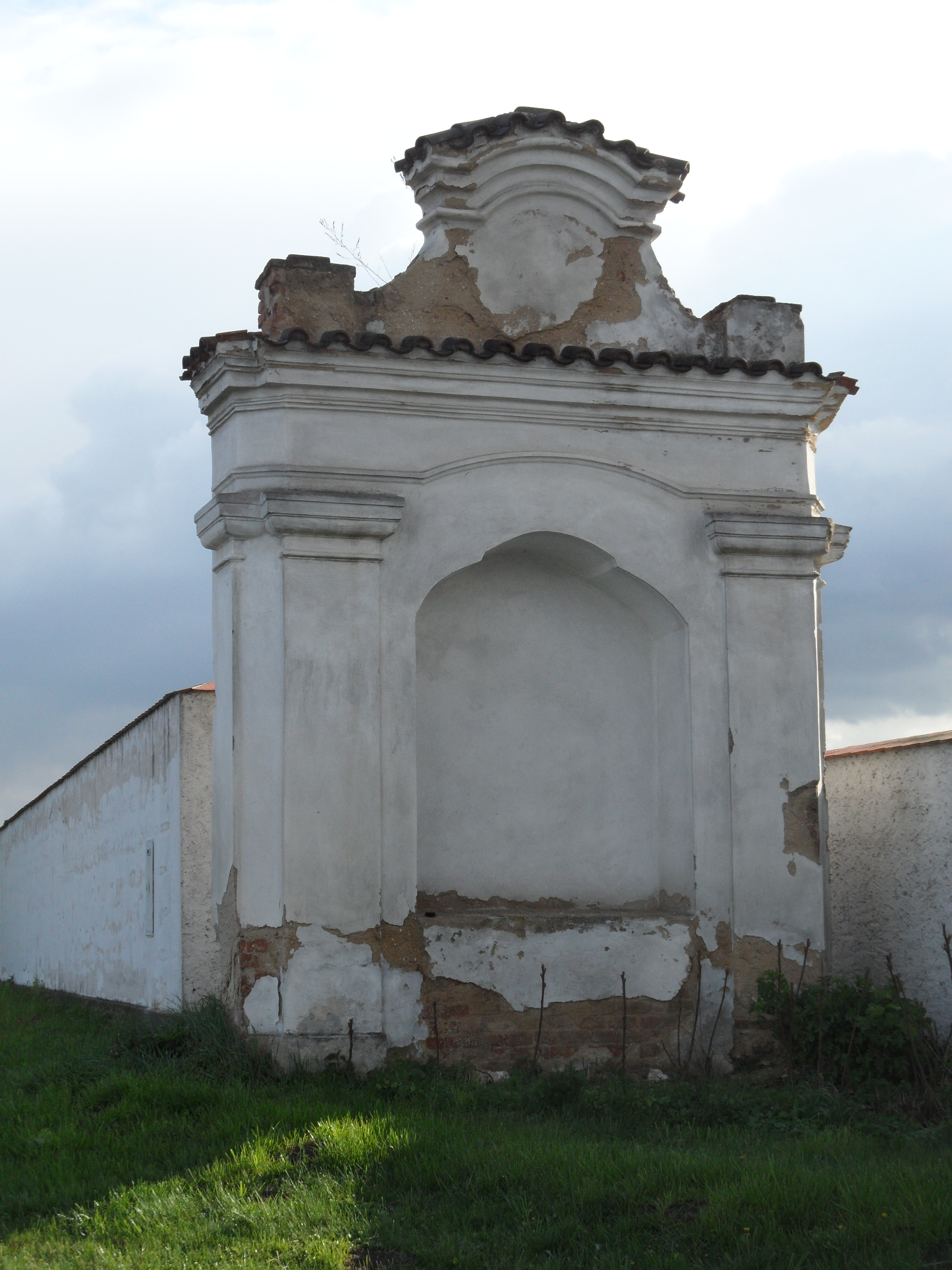 Zlaté Slunce (Brezany I) A. Baroque Chapel of Saint John Nepomucene, Half of 18th Century, Kolín District, the Czech Republic.